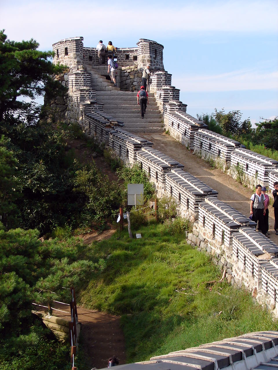 Namhan Sanseong lookout